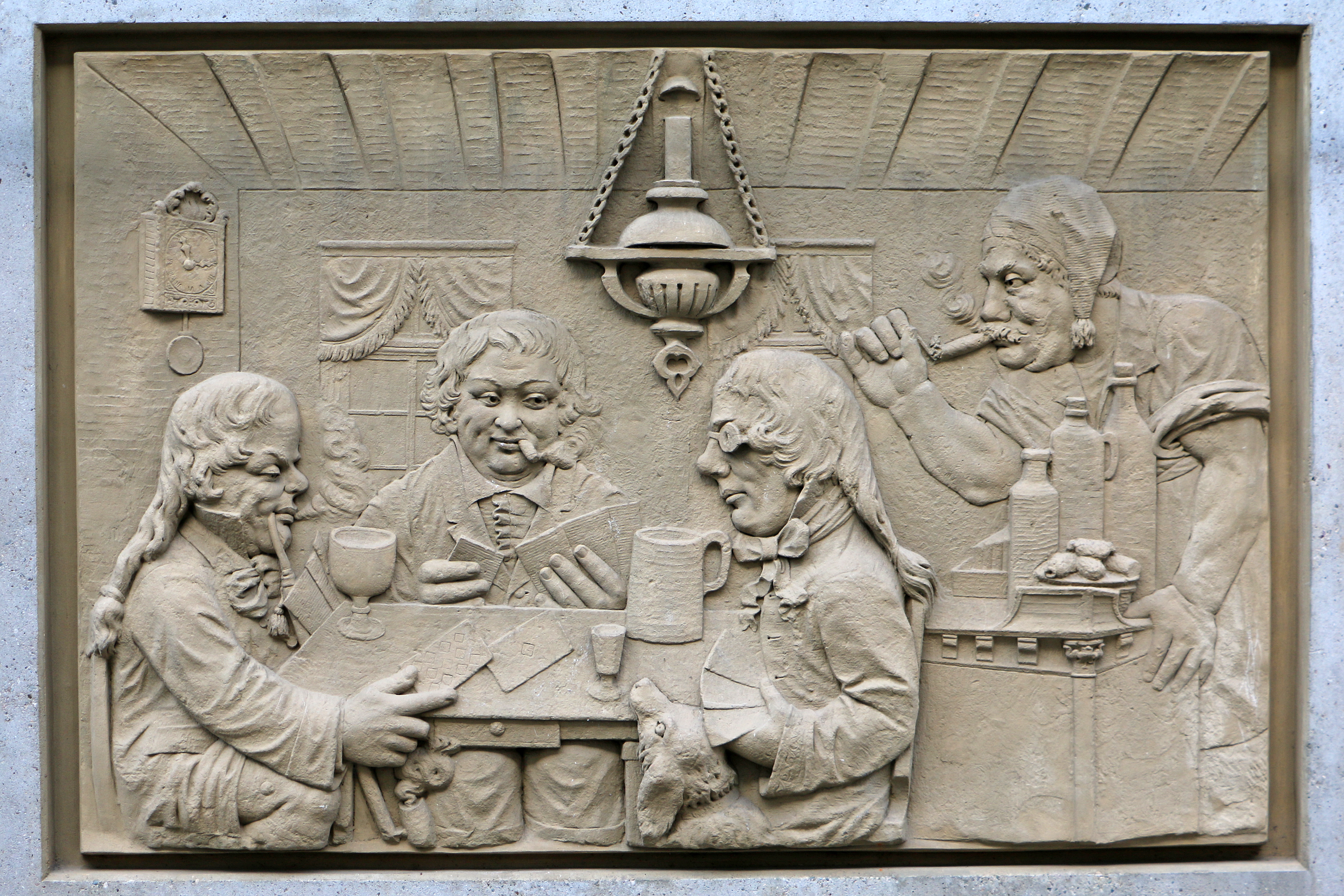 Relief “The good old times” in Koblenz